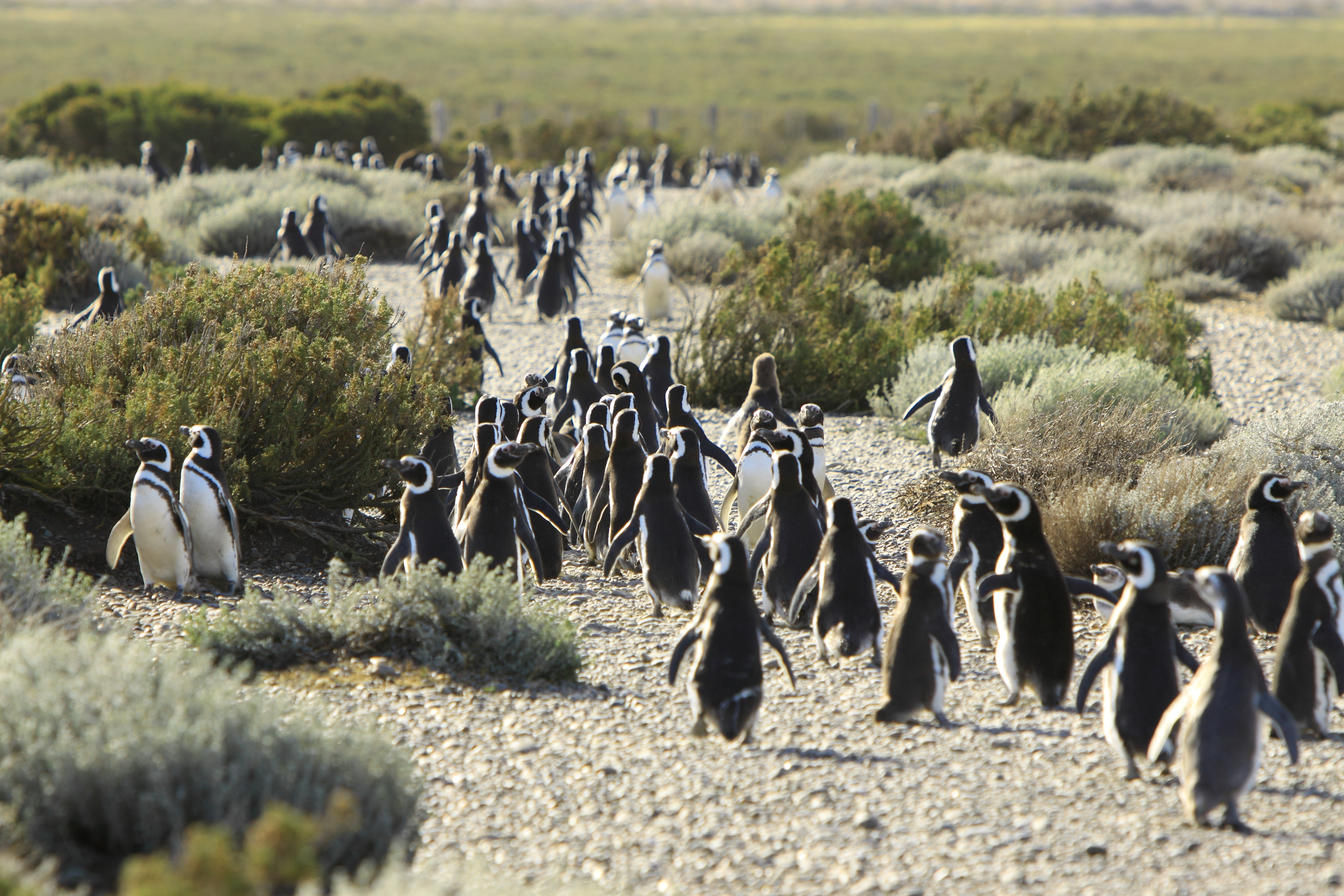 Please, have this description accessible to all by translating it in different languages.